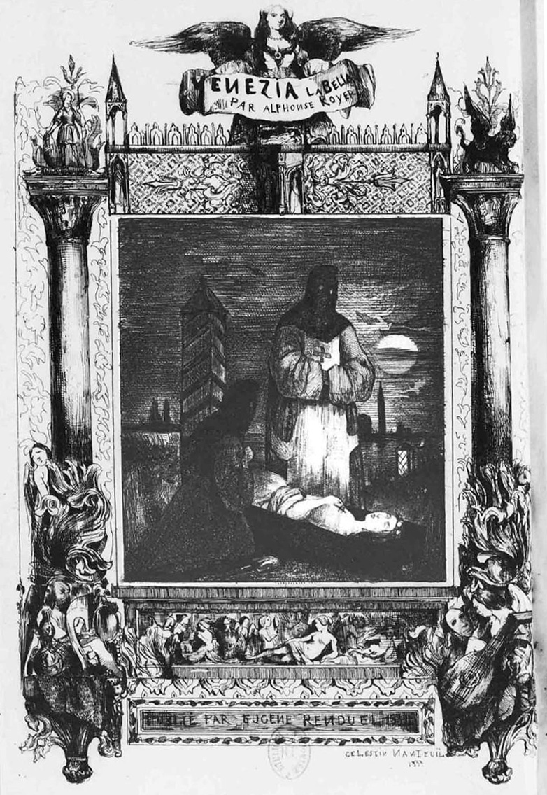 Frontispiece of the novel Venezia la bella by Alphonse Royer Artist: Célestin François Nanteuil (1813-1873) Publication: Paris: Eugène Renduel, 1834 Source: Bibliothèque nationale de France